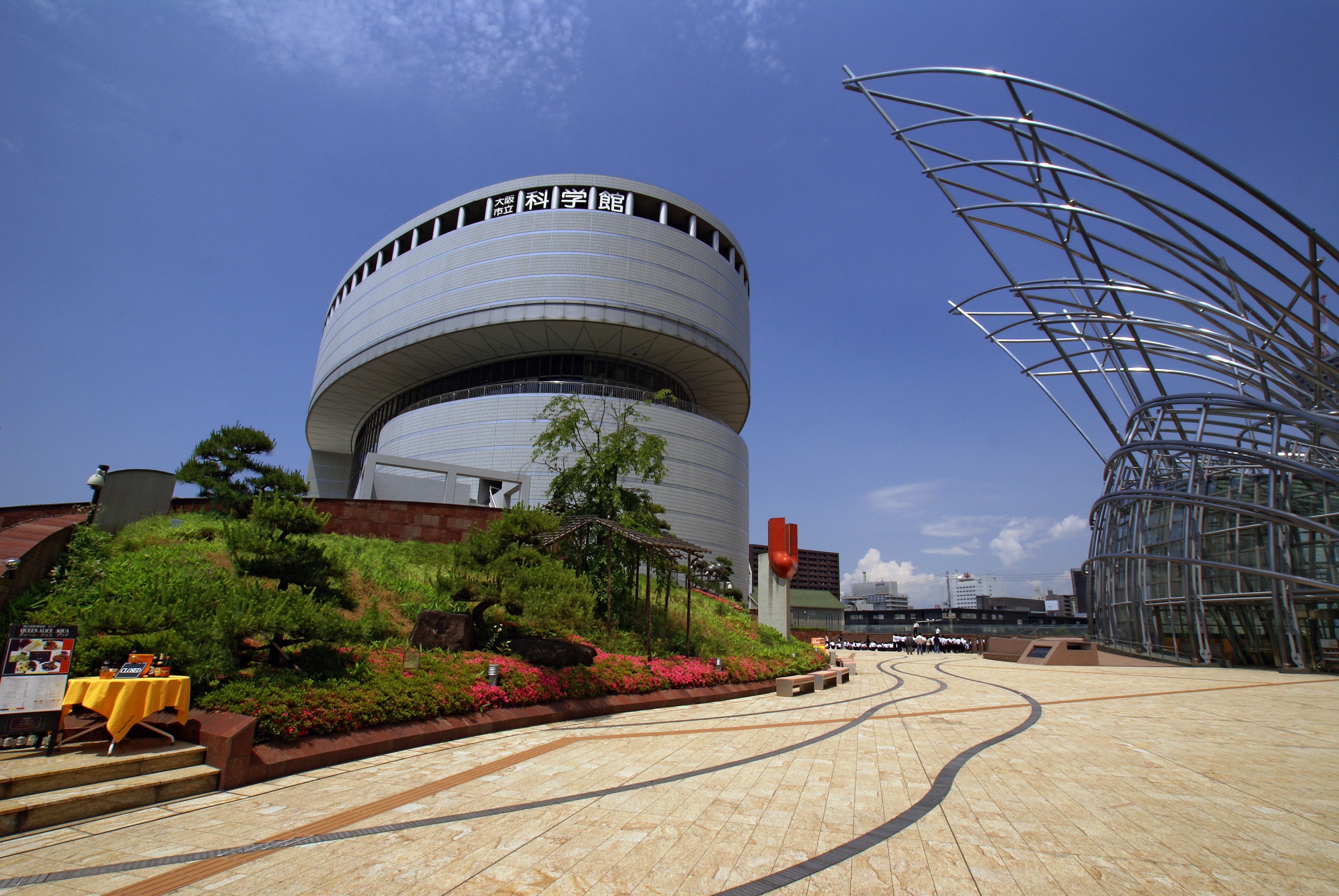 Osaka Science Museum in Osaka, Osaka prefecture, Japan